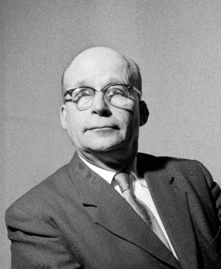 Photograph of the Finnish lawyer Paavo Säippä (1902–1991).